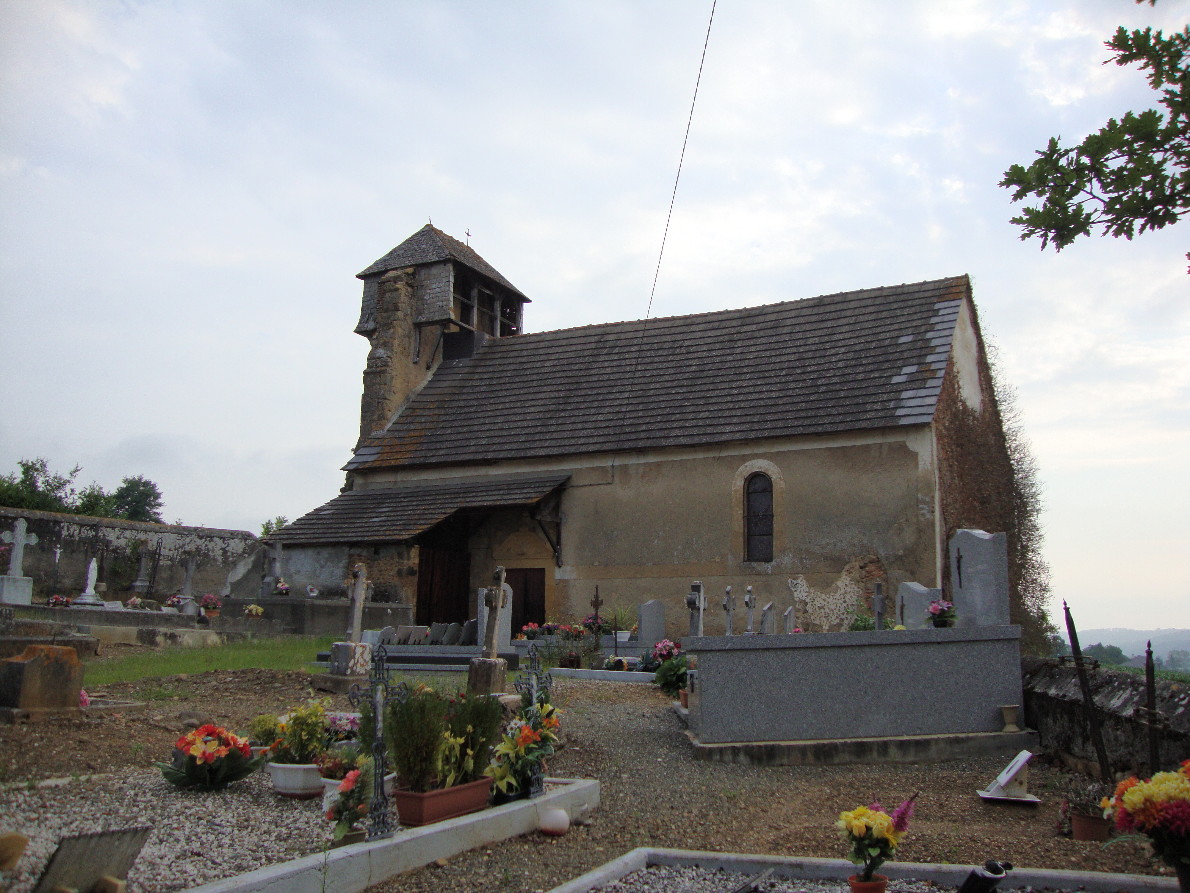 Sérée (Bentayou-Sérée, Pyr-Atl, Fr) church needing restauration